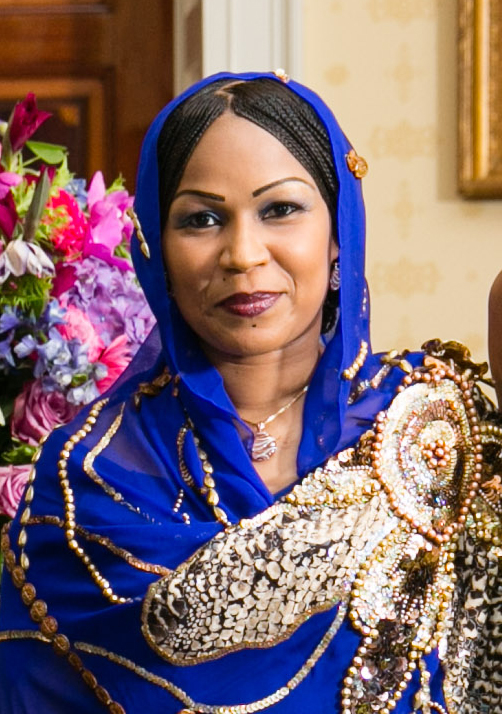 Mrs. Hinda Deby Itno, First Lady of the Republic of Chad, in the Blue Room during a U.S.-Africa Leaders Summit dinner at the White House, Aug. 5, 2014. (Official White House Photo by Amanda Lucidon)